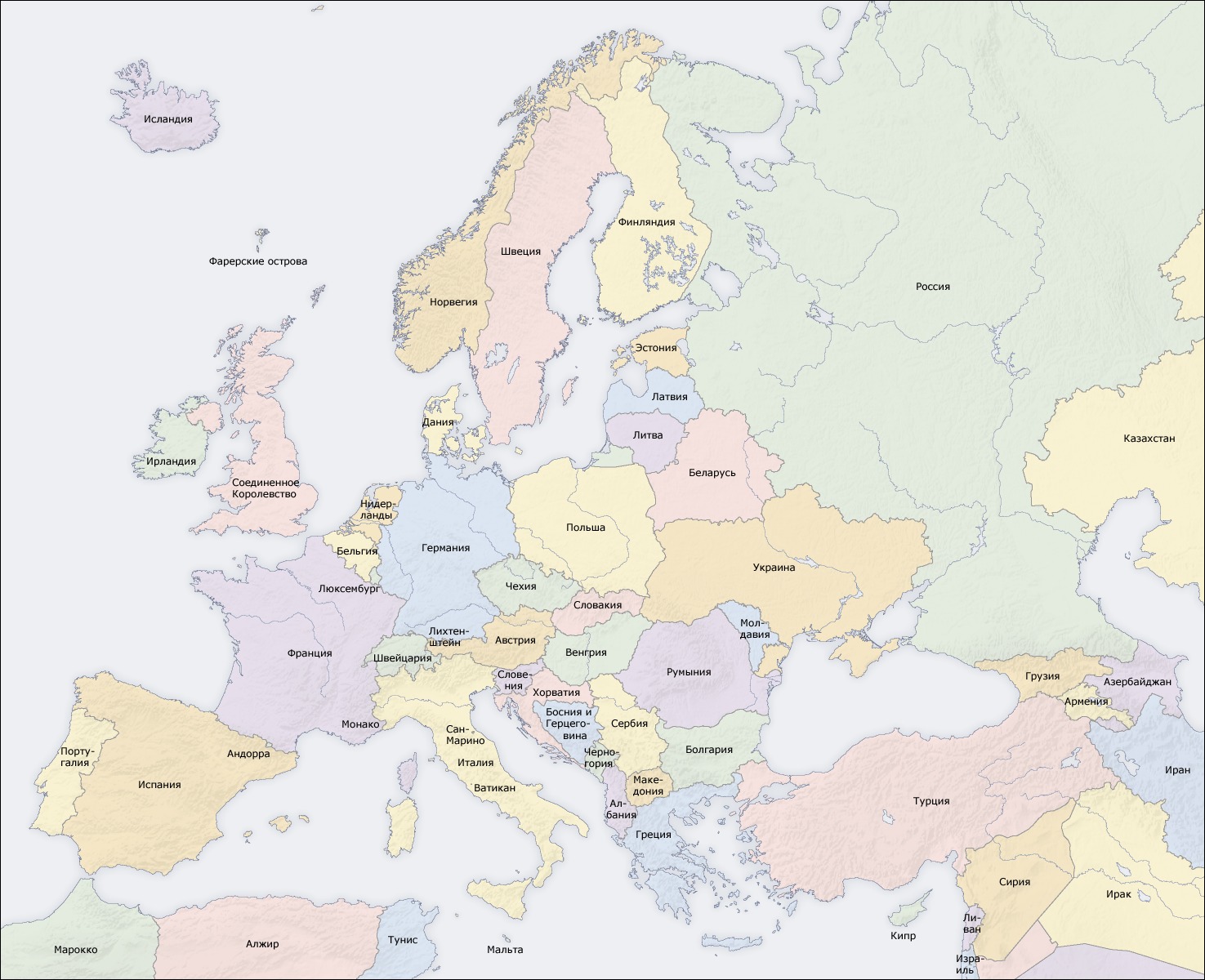 Map of countries in Europe.